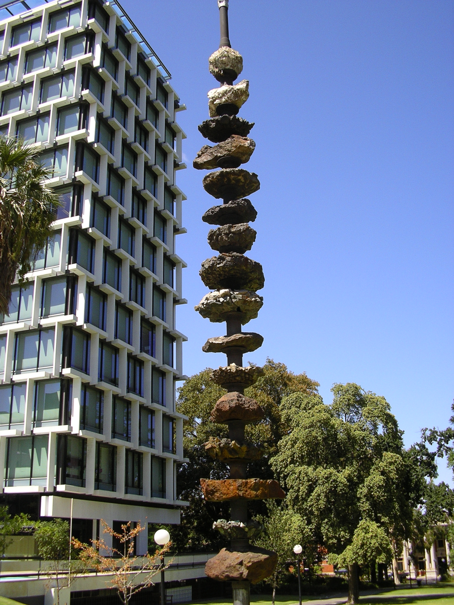 Public art- Ore Obelisk2 Perth